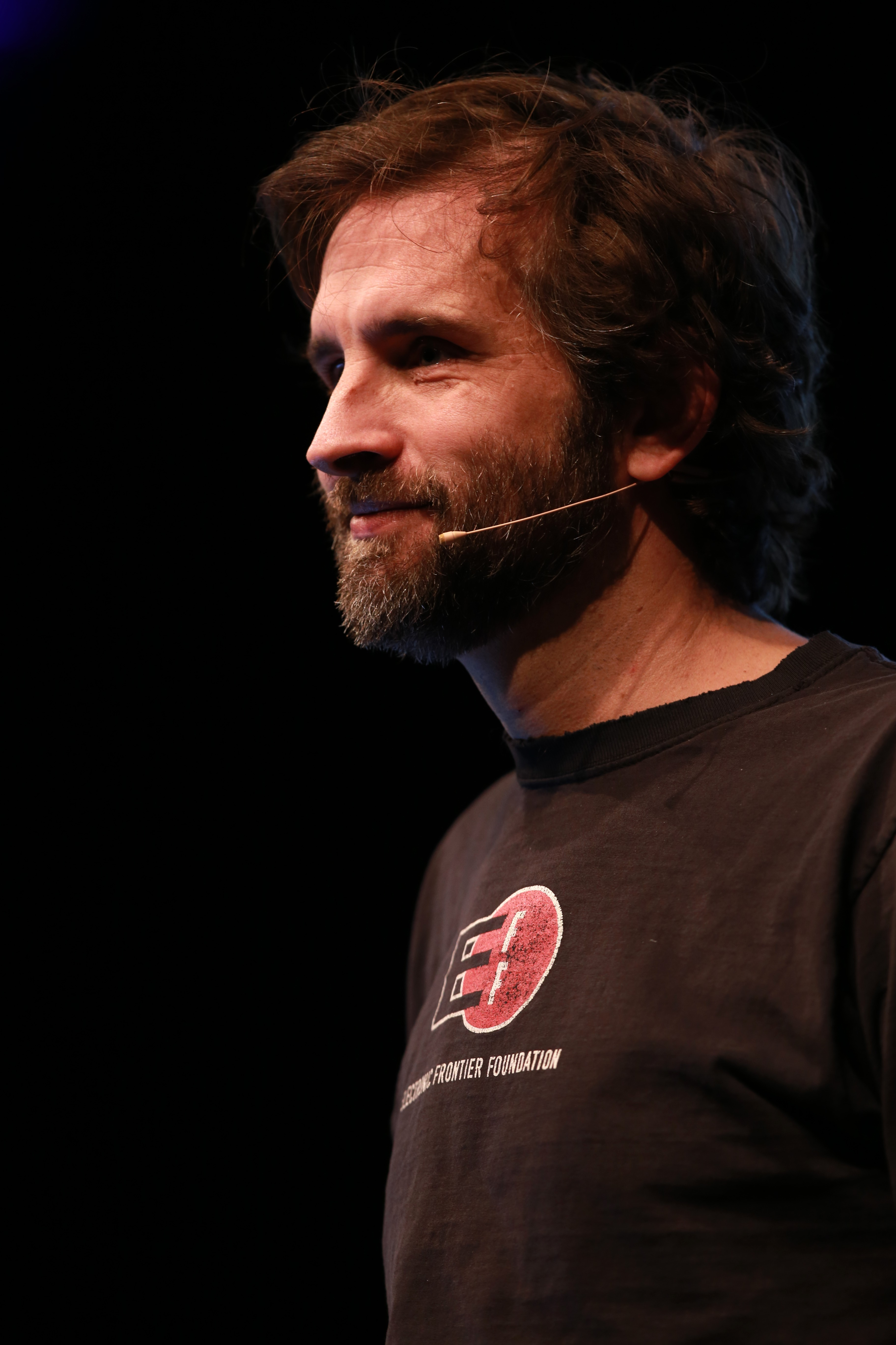 Zooko Wilcox-O'Hearn, 34th Chaos Communication Congress, Leipzig.